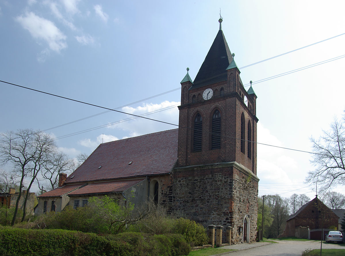 Church of Groß Kölzig, Brandenburg, Germany